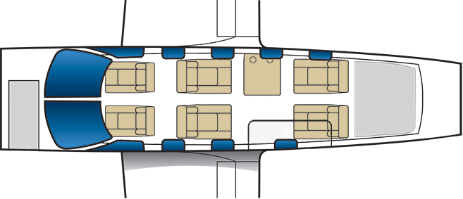 TBM 850 6 seats version